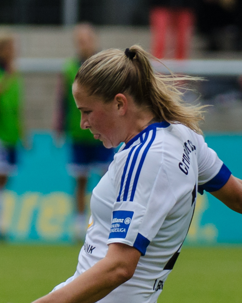 Match of the German Women's Football Bundesliga between 1.FFC Frankfurt and 1. FFC Turbine Potsdam, 2015-09-13